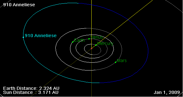 910 Anneliese orbit, and his position on 01 Jan 2009 (NASA Orbit Viewer applet)